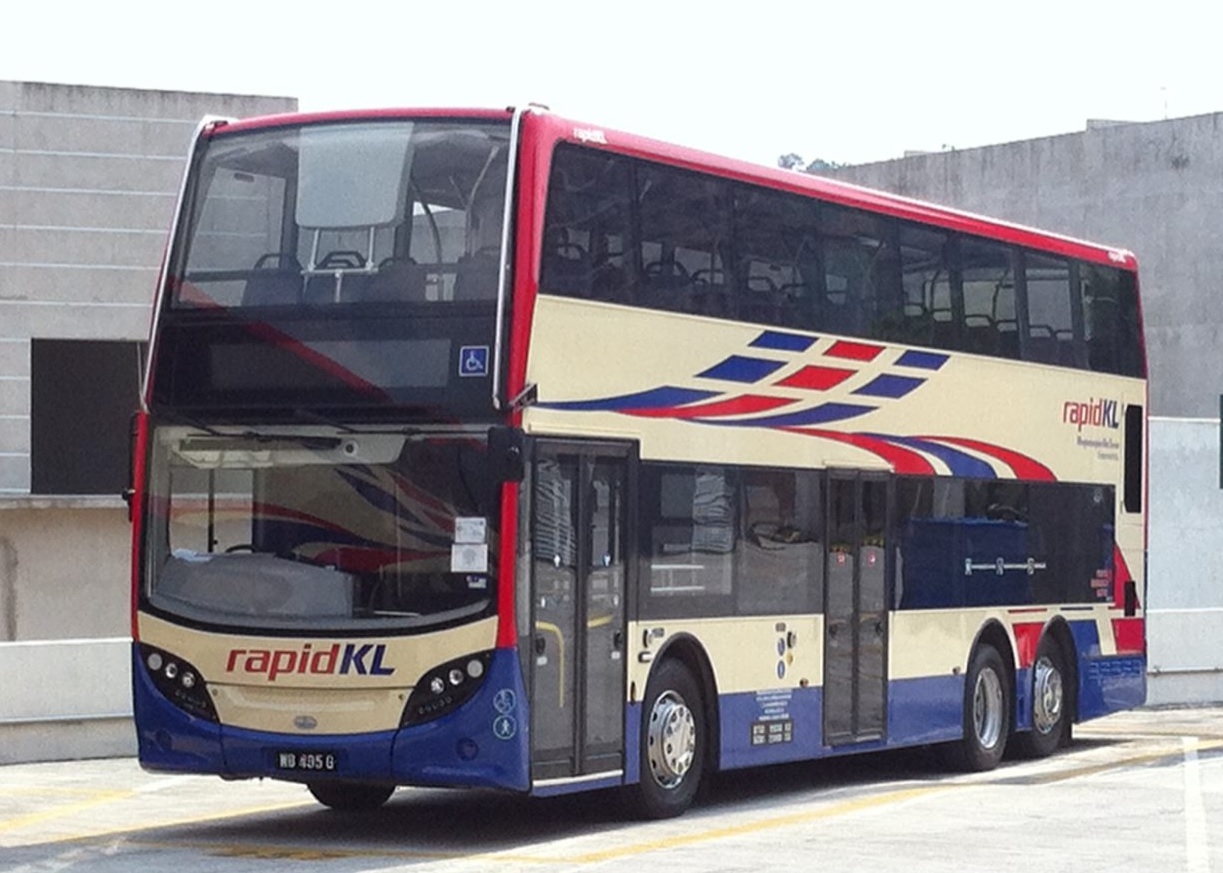 An Alexander-Dennis Enviro500 MMC operated by RapidBus parked at Cheras Selatan depot